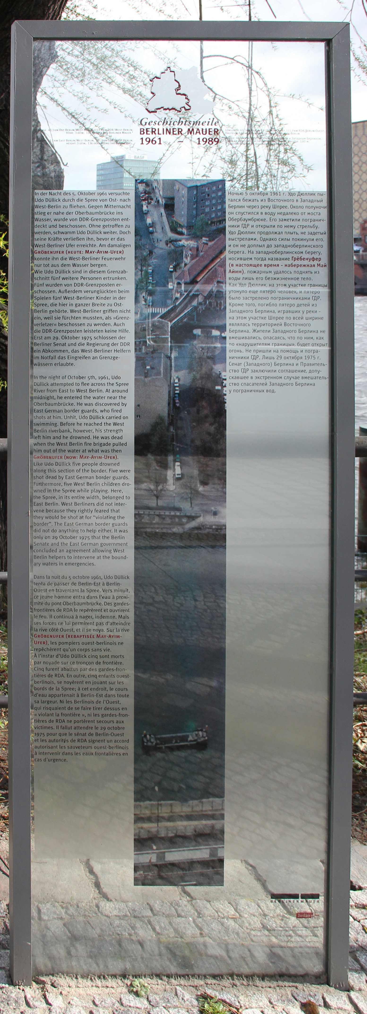 Memorial plaque, Udo Düllick, May-Ayim-Ufer , Berlin-Kreuzberg, Germany